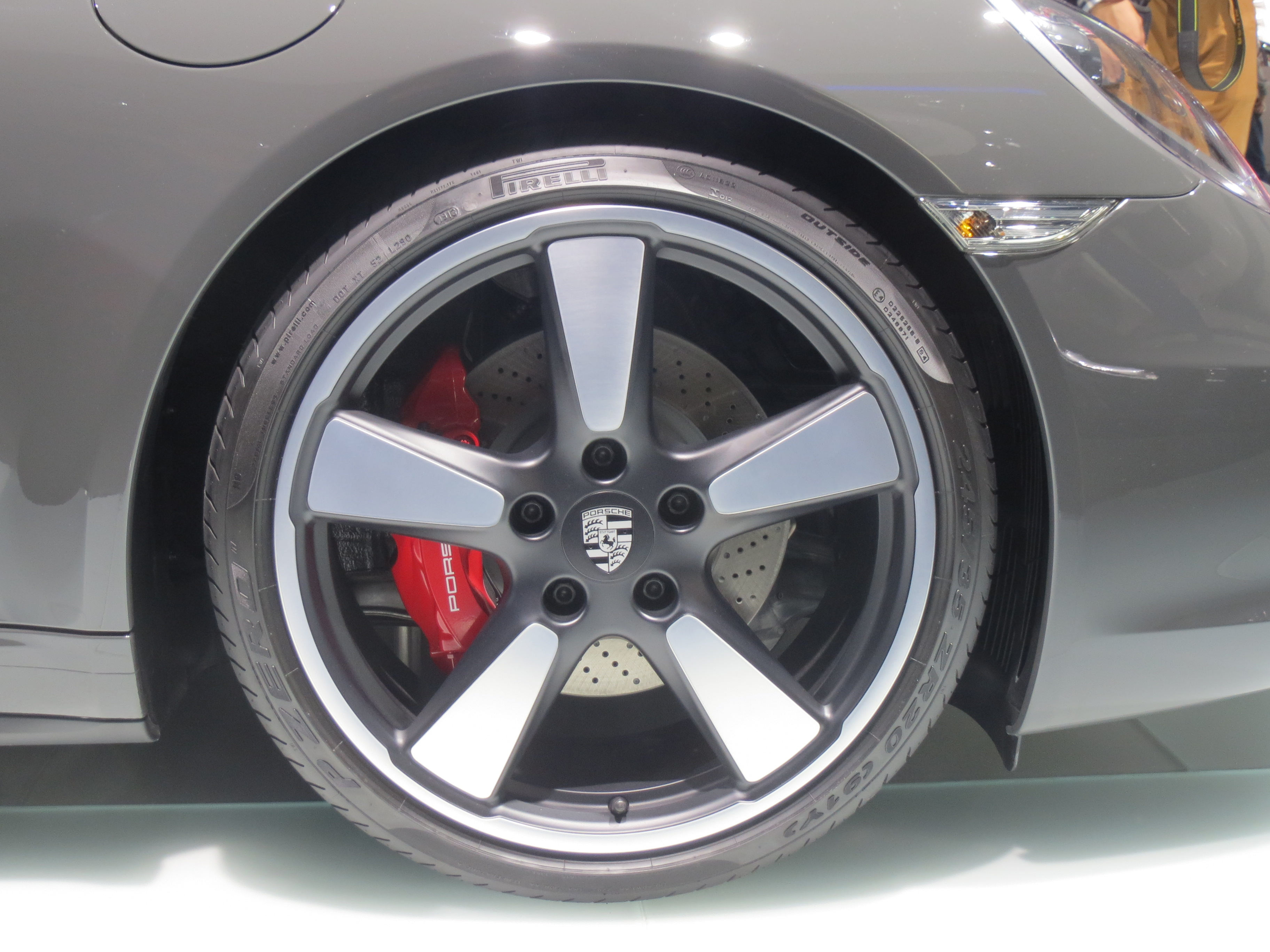 Fuchs-Rim of the Porsche 911 50th Anniversary Edition at IAA 2013